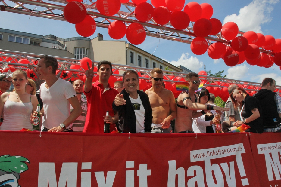 Berlin CSD 2012